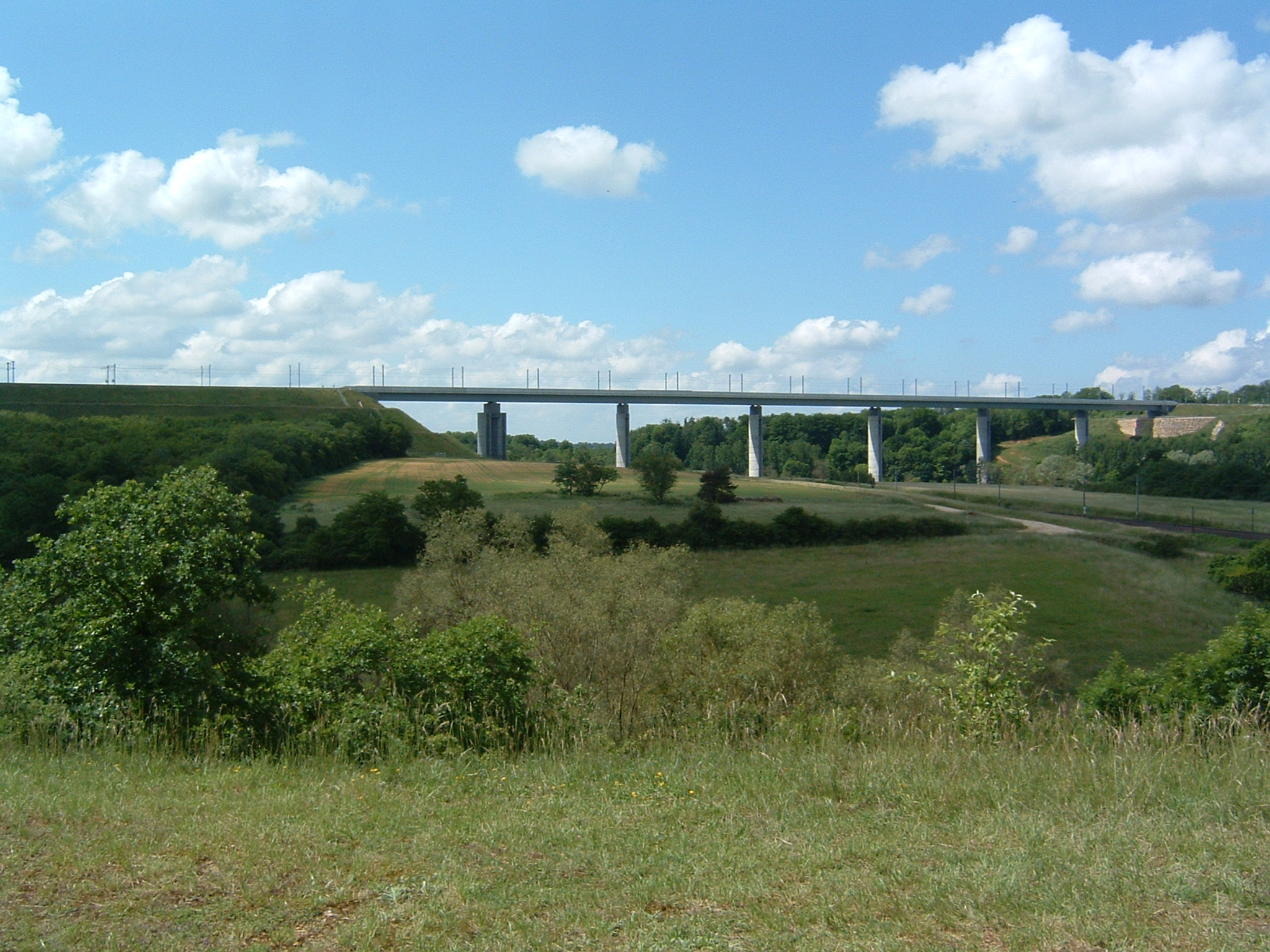 Railway bridge of the LGV Est high-speed railway line near Jaulny